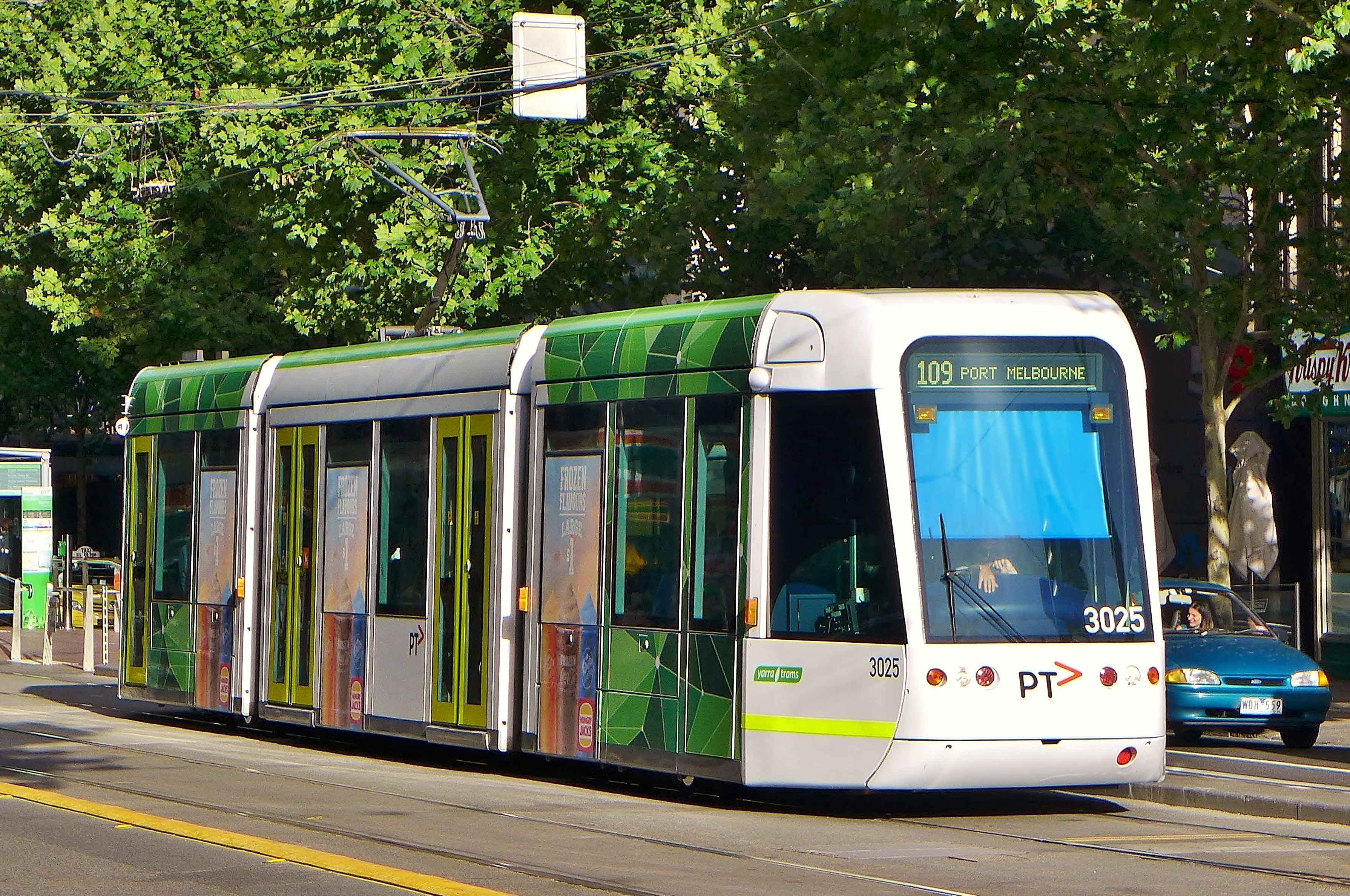 C class tram no 3025 has just departed from the Spencer Street tram stop in Collins Street, with a route 109 service from Box Hill to Port Melbourne in Melbourne, Australia.